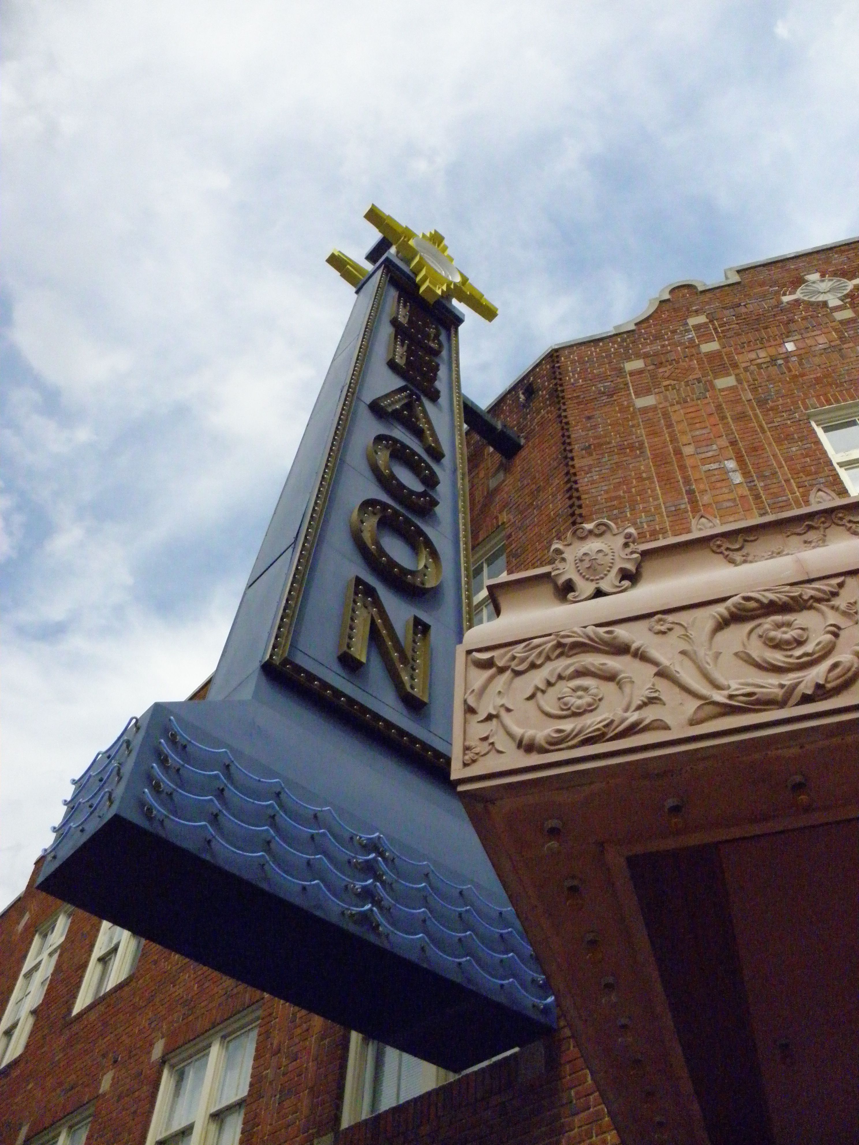 Beacon Theatre